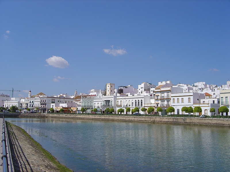 Ayamonte, Andalucia, Spain